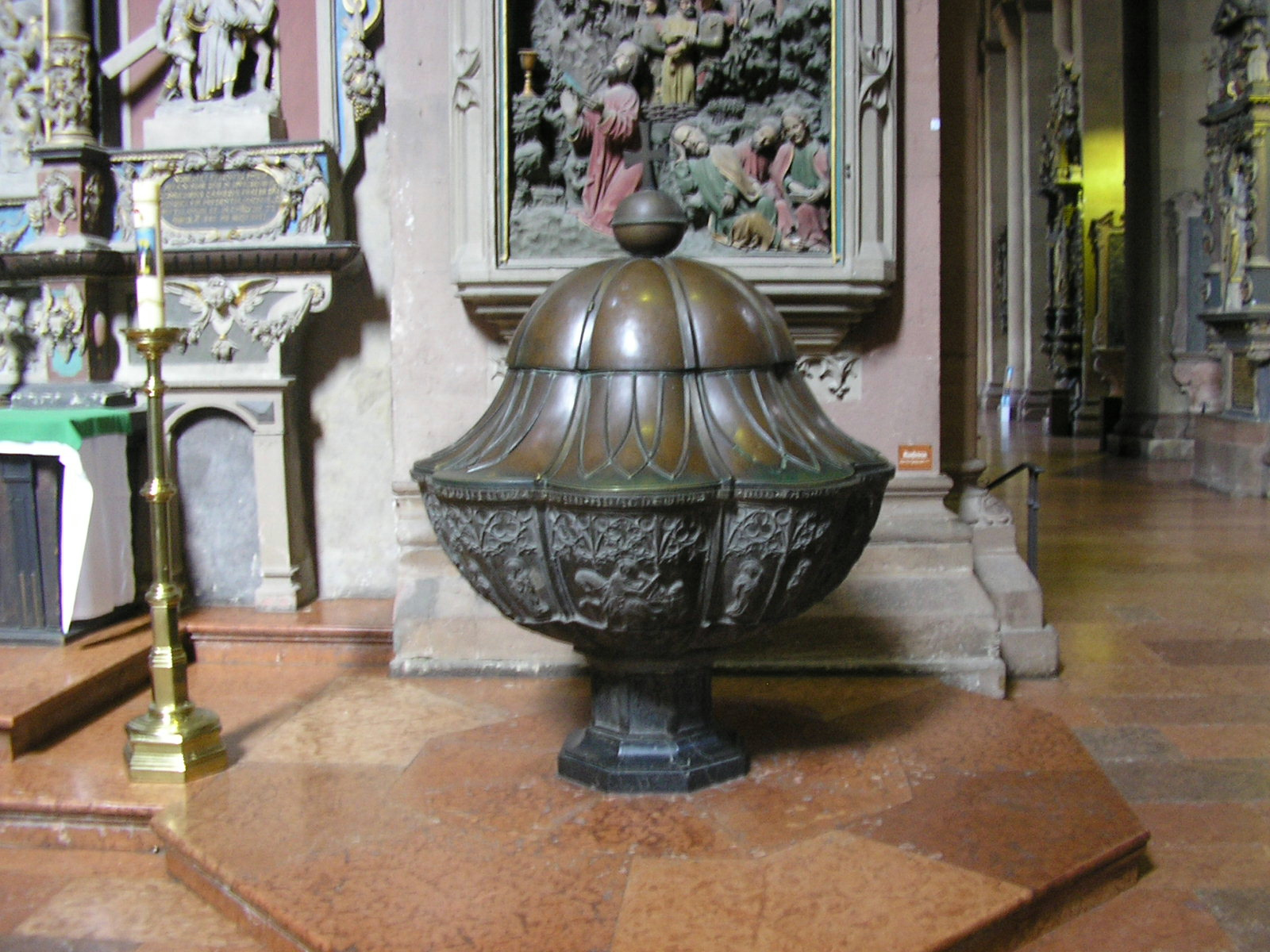 Gothic baptismal font of Mainz cathedral, cast of tin in 1328. Lid 19th century.